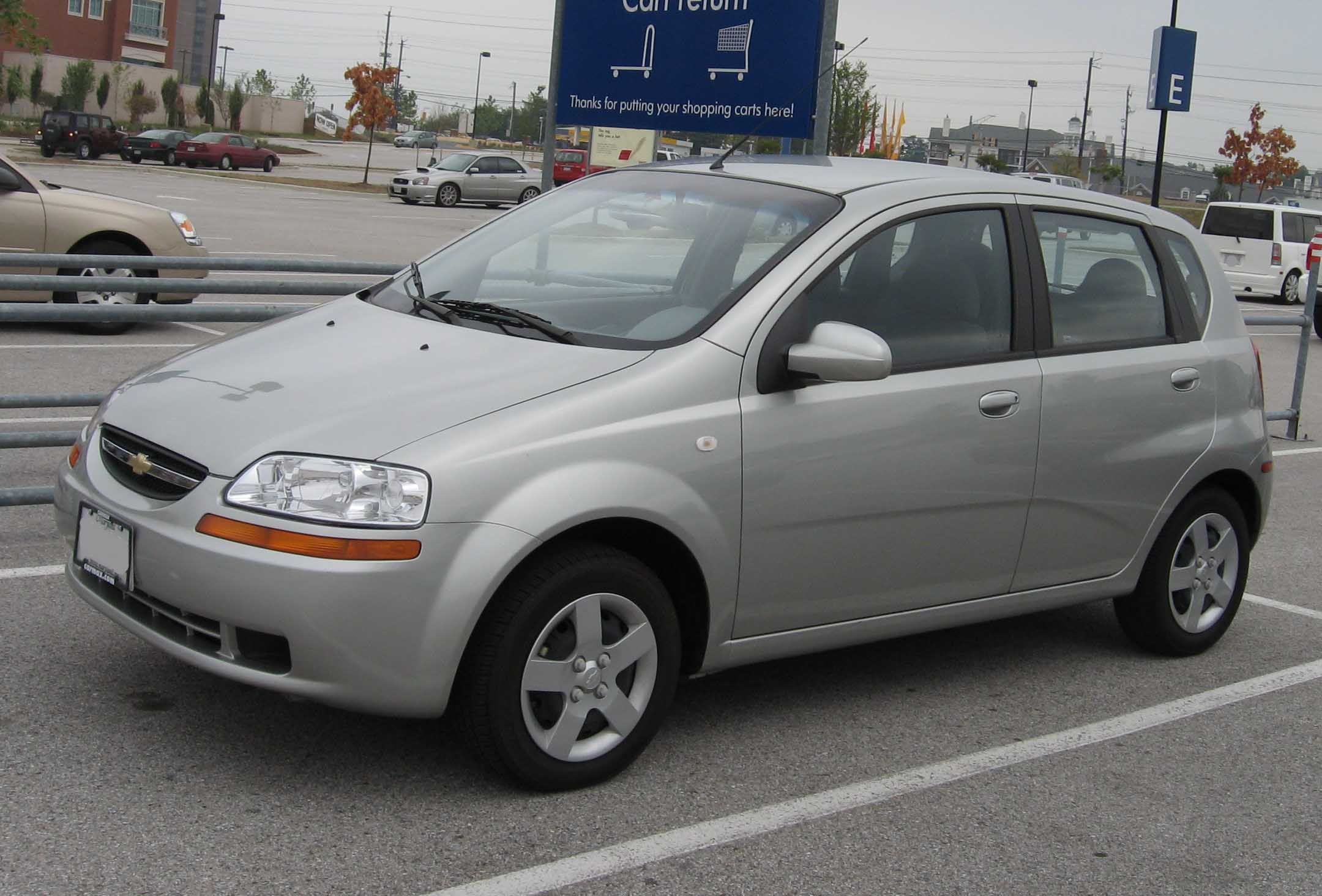 2004-2007 Chevrolet Aveo photographed in USA.